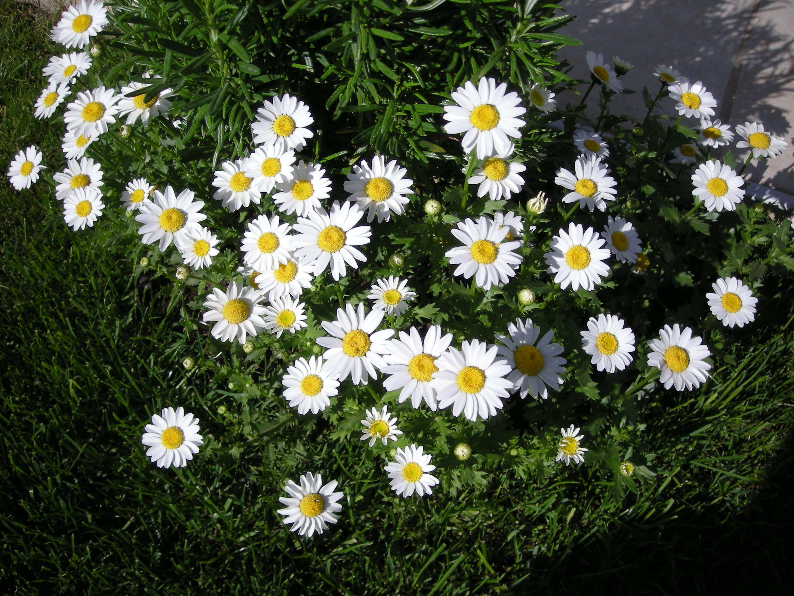 daisies. Photo is taken in İstanbul.